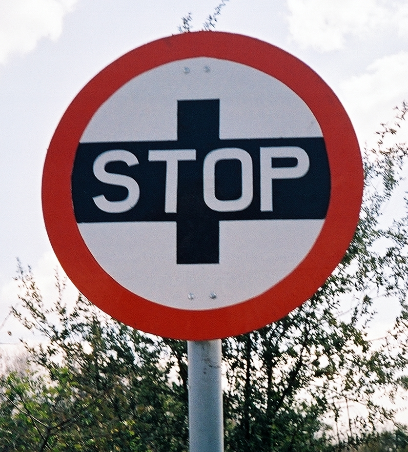 This is a stop sign in Zimbabwe. Note its rather unusual design.